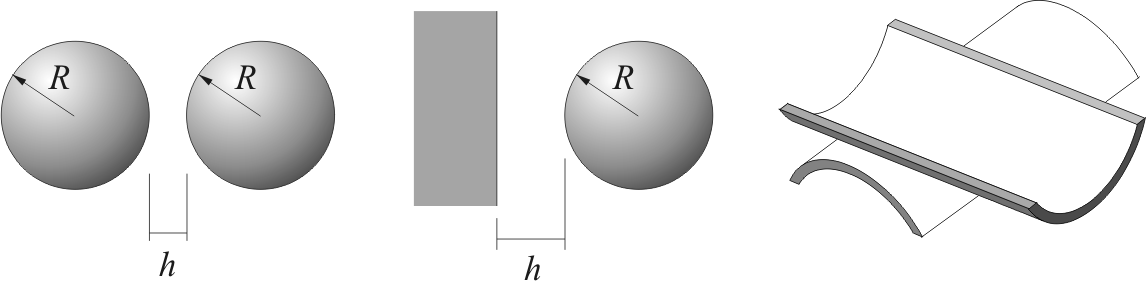 Scheme2 for the Derjaguin Approximation Article